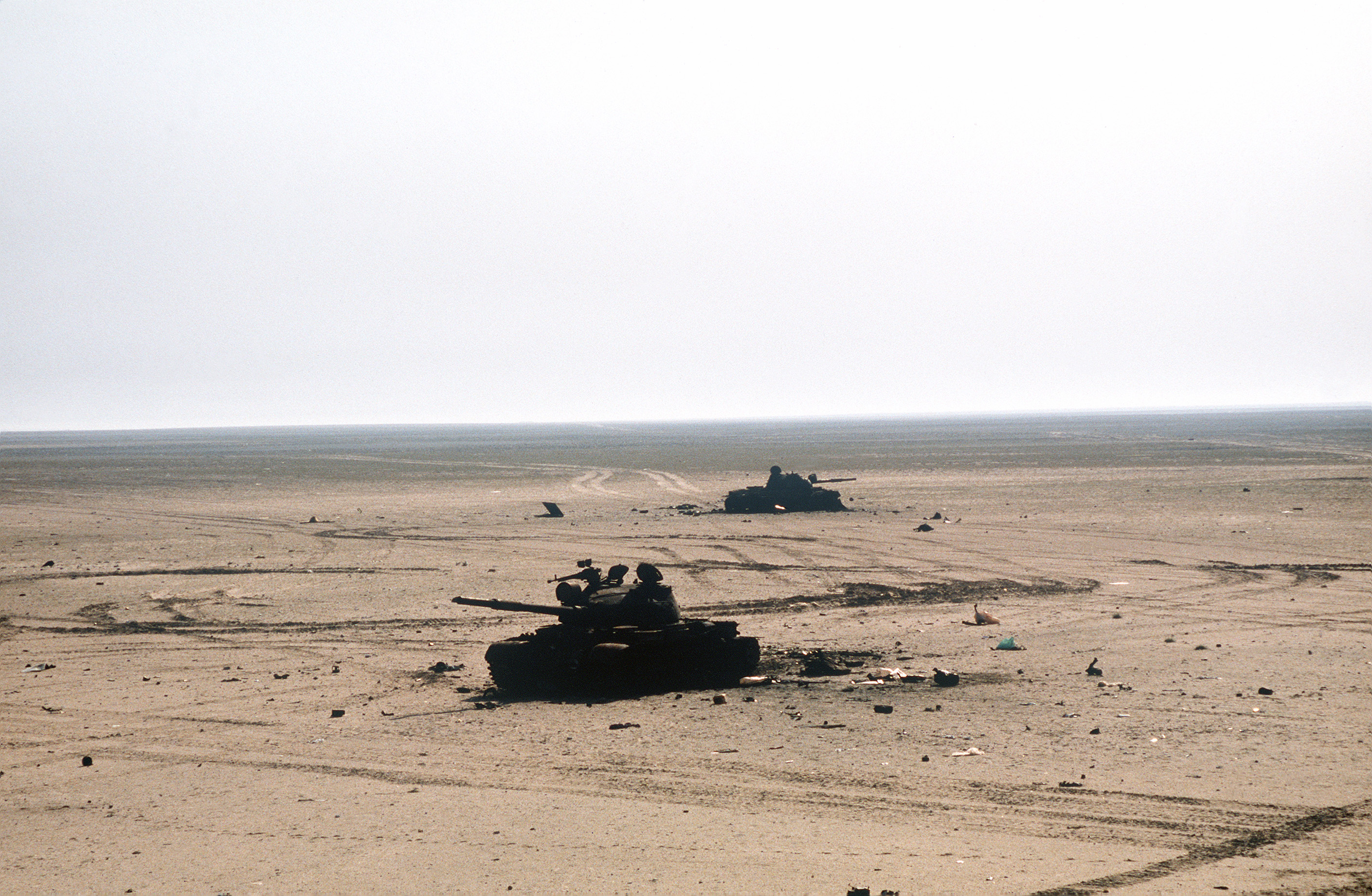 Two destroyed Iraqi T-62 main battle tanks lie in the sand beside a road during the ground phase of Operation Desert Storm.